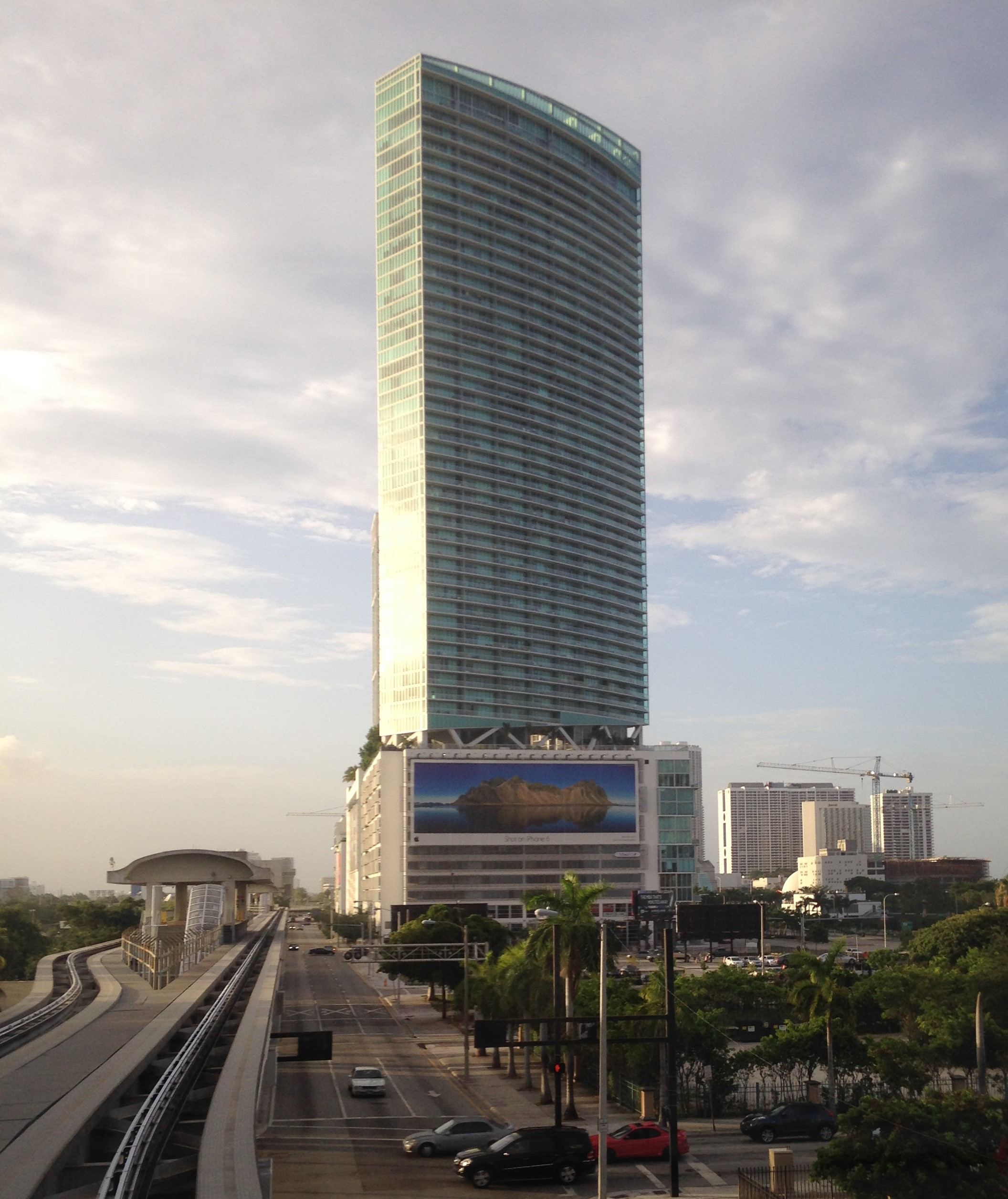 MarinaBlue in Downtown Miami, June 2015.